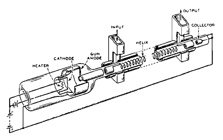 Diagram of a traveling wave tube (TWT), showing how it works. A traveling wave tube is a specialized linear beam vacuum tube that amplifies microwaves (high frequency radio waves). It consists of an evacuated glass or ceramic tube with an electron gun at one end (left) that produces a high energy beam of electrons which is absorbed by a collector electrode at the other end.(right). The radio signal to be amplified is introduced by the input waveguide (left) and travels down the wire helix surrounding the electron beam. The microwaves absorb energy from the beam, and the amplified signal leaves through the output waveguide (right).